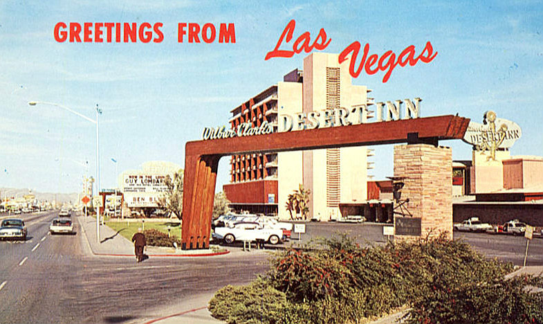 Photo of the Desert Inn in 1970 from a postcard.